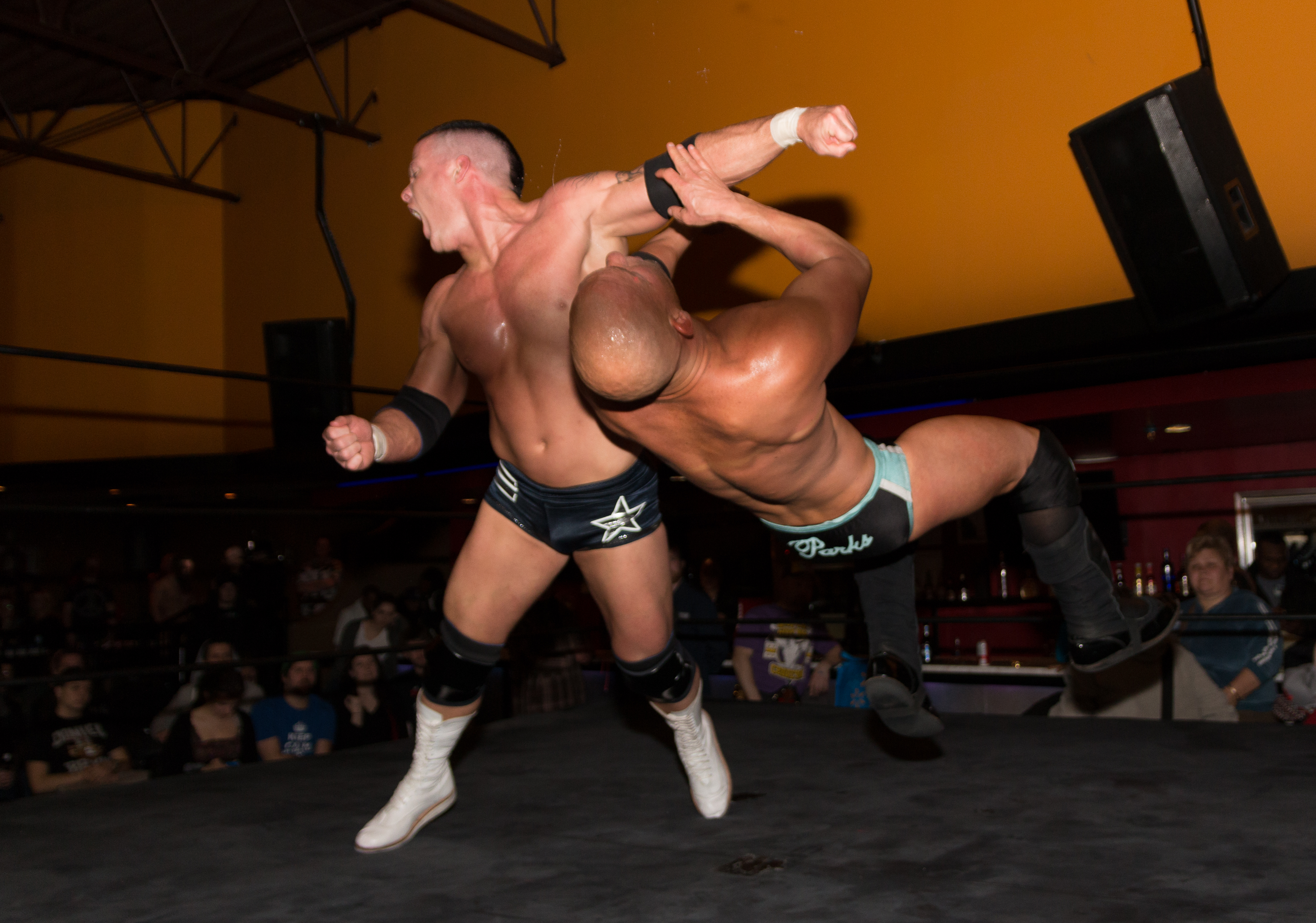 Tyson Dux (left) hitting a clothesline on Pepper Parks